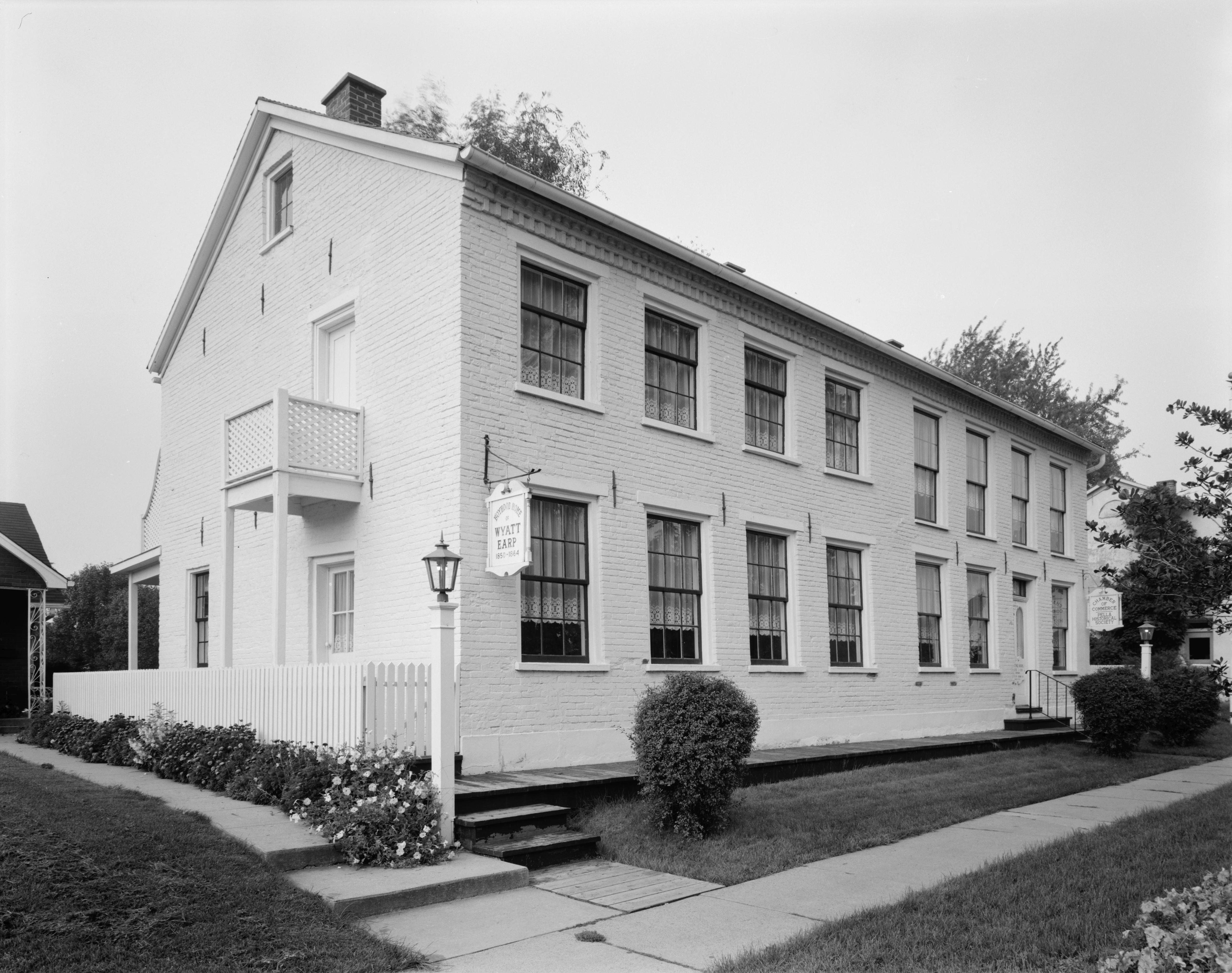 Front of the Wyatt Earp House, located at 507 E. Franklin Street in Pella, Iowa, United States. The boyhood home of Wyatt Earp, the house is now the museum of Pella Historical Society. Built circa 1850, it is one of a group of houses listed together on the National Register of Historic Places.